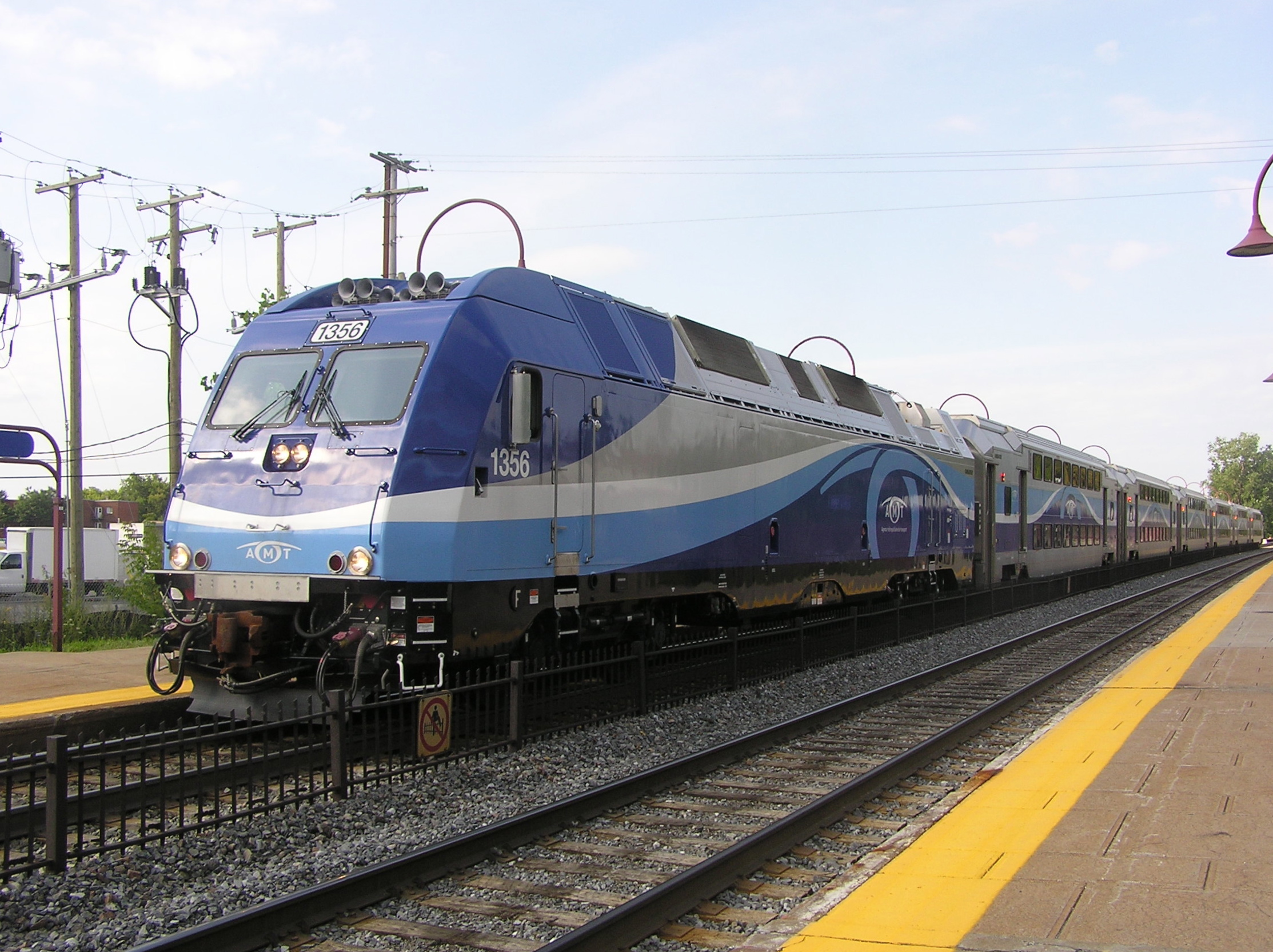 An AMT train from Vaudreuil-Hudson at Vendôme station heading towards downtown Montreal.